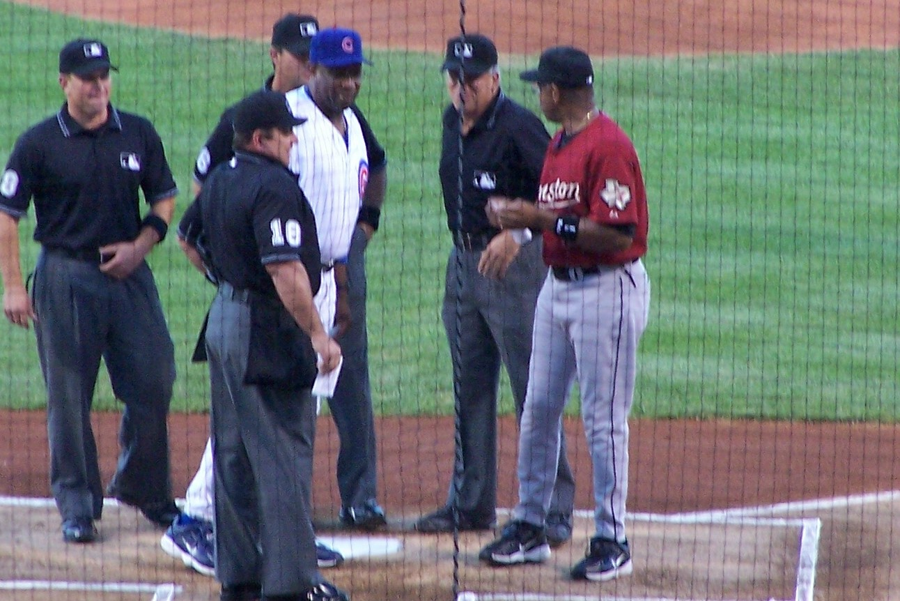 Description Dusty Baker and Cecil Cooper meeting at home plate at Wrigley Field in 2006. Date18 July 2006SourceI created this work entirely by myself.AuthorBrandonrush (talk) 19:33, 29 March 2009 . . Brandonrush . . 1,292×862 (396 KB) Dusty Baker and Cecil Cooper meeting at home plate at Wrigley Field in 2006.